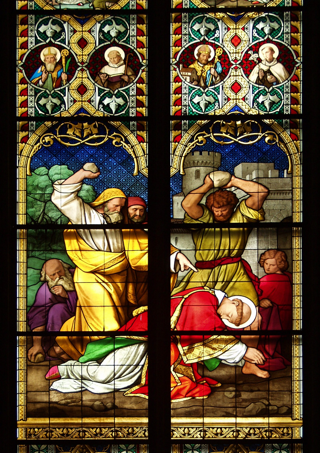 Cologne Cathedral - "Bayern Window" - Stoning of Saint Stephen